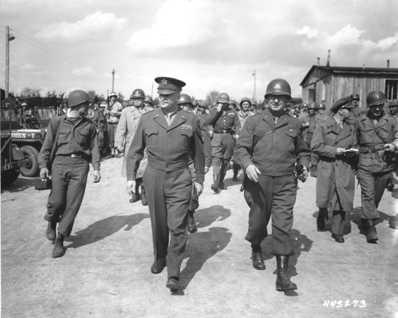 General Dwight Eisenhower and General Troy Middleton tour the newly liberated Ohrdruf concentration camp. General Troy Middleton is commanding general of the VIII Corps, Third U.S. Army.